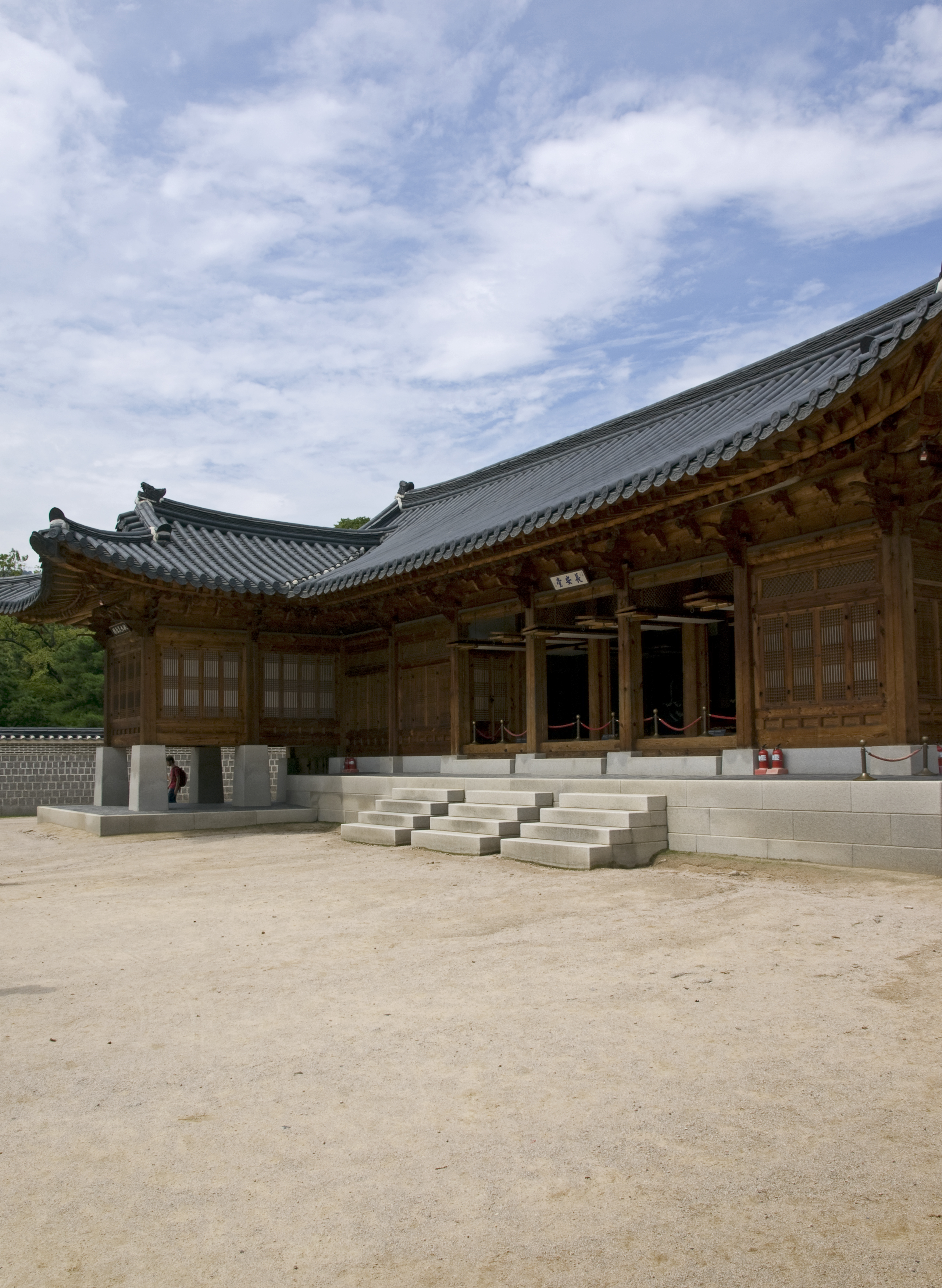 Geoncheonggung, royal residence at the Gyeongbokgung palace, Seoul